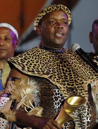 Memorial services for Mhlobo Wenene FM Traditional music Dj Saba KaMbixane This is an image of Cultural Fashion or Adornment from South Africa